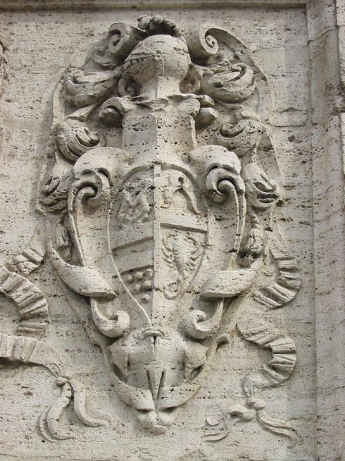 Stemma Famiglia Molara (particolare), Statue dei Dioscuri del Campidoglio